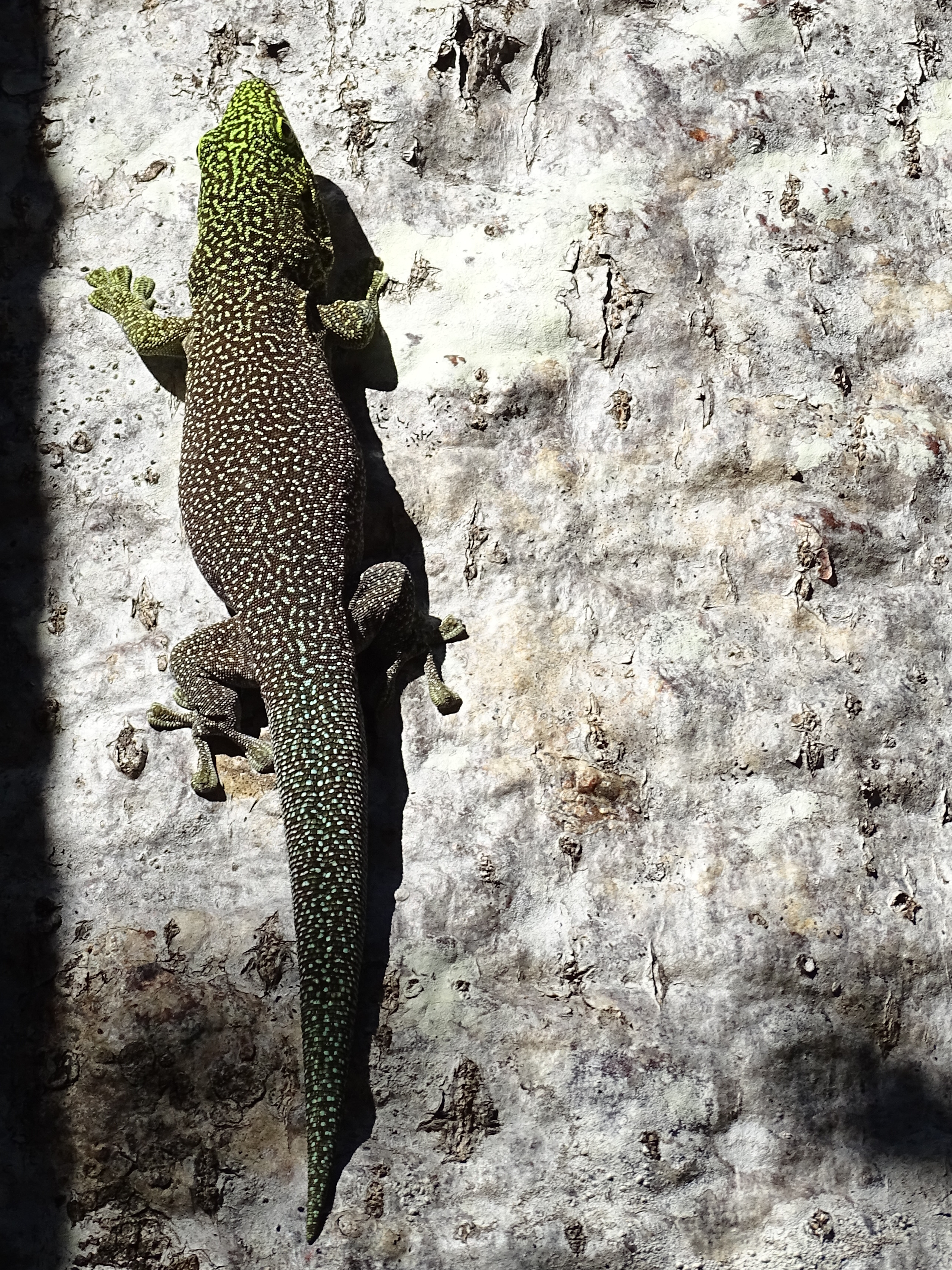 Standing's day gecko (Phelsuma standingui) at Zombitse-Vohibasia National Park